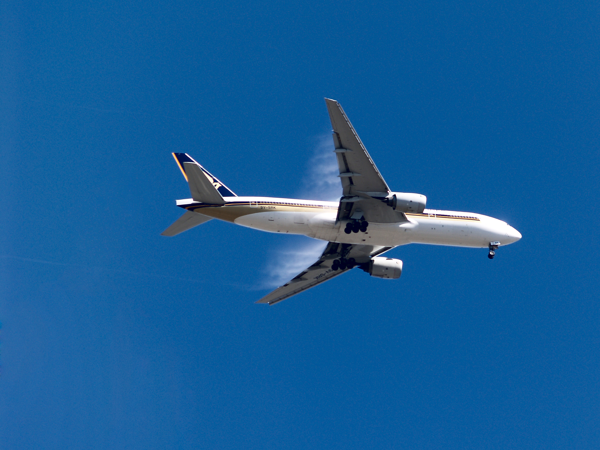 Singapore Airlines, Boeing 777-212/ER (9V-SRK) at Brisbane, Queensland